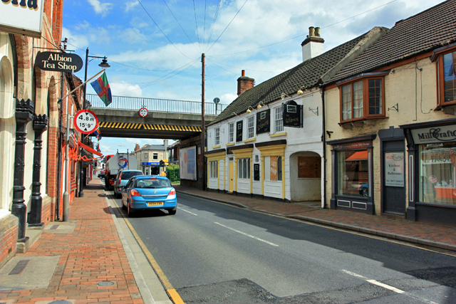 Queen Street, Market Rasen. Queen Street passes under the railway line.